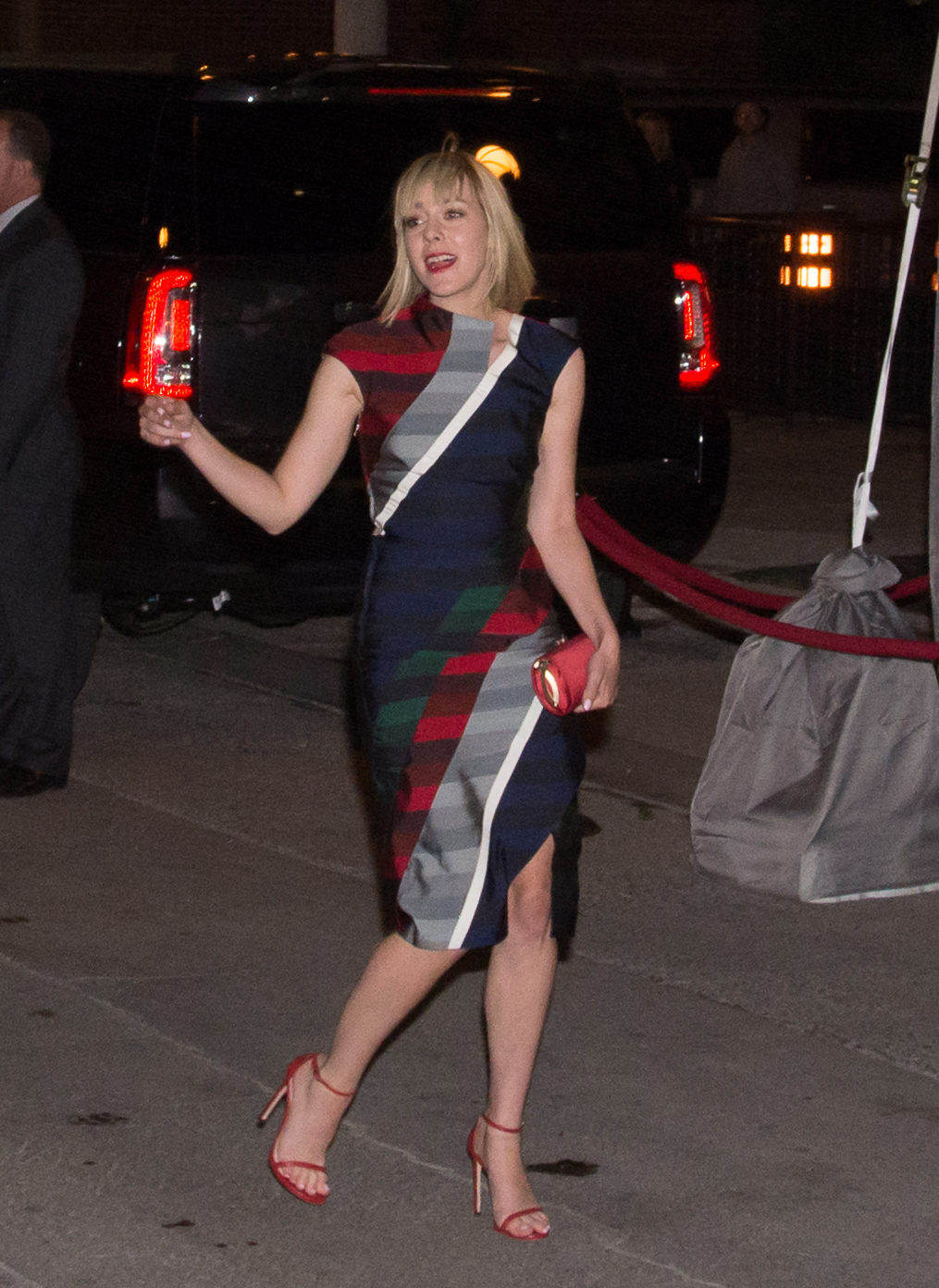 Actress Jena Malone arriving for the Hollywood Foreign Press Association & InStyle's 2014 TIFF Celebration